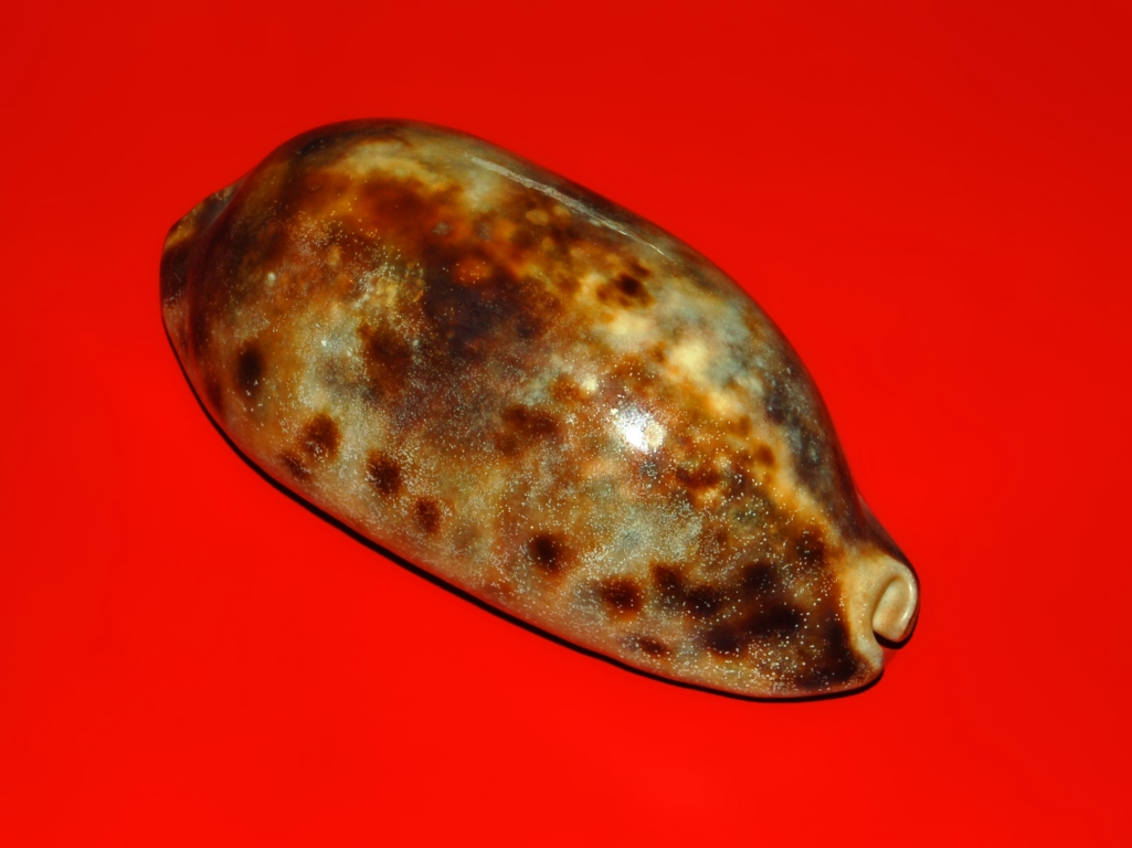 Chelycypraea testudinaria